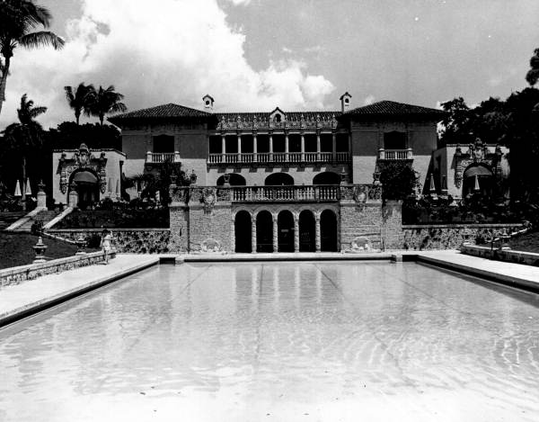 Local call number: PR14949 Title: El Jardin, Coconut Grove, Miami Date: ca. 1950 General Note: El Jardin, located at 3747 Main Highway in Miami, Florida, was built in 1918 by architect Richard Kiehnel. It was added to the National Register of Historic Places in 1974 and is now part of the Carrollton School of the Sacred Heart. Physical descrip: 1 photonegative - b&w - 4 x 5 in. Series Title: Print Collections Repository: State Library and Archives of Florida, 500 S. Bronough St., Tallahassee, FL 32399-0250 USA. Contact: 850.245.6700. Persistent URL